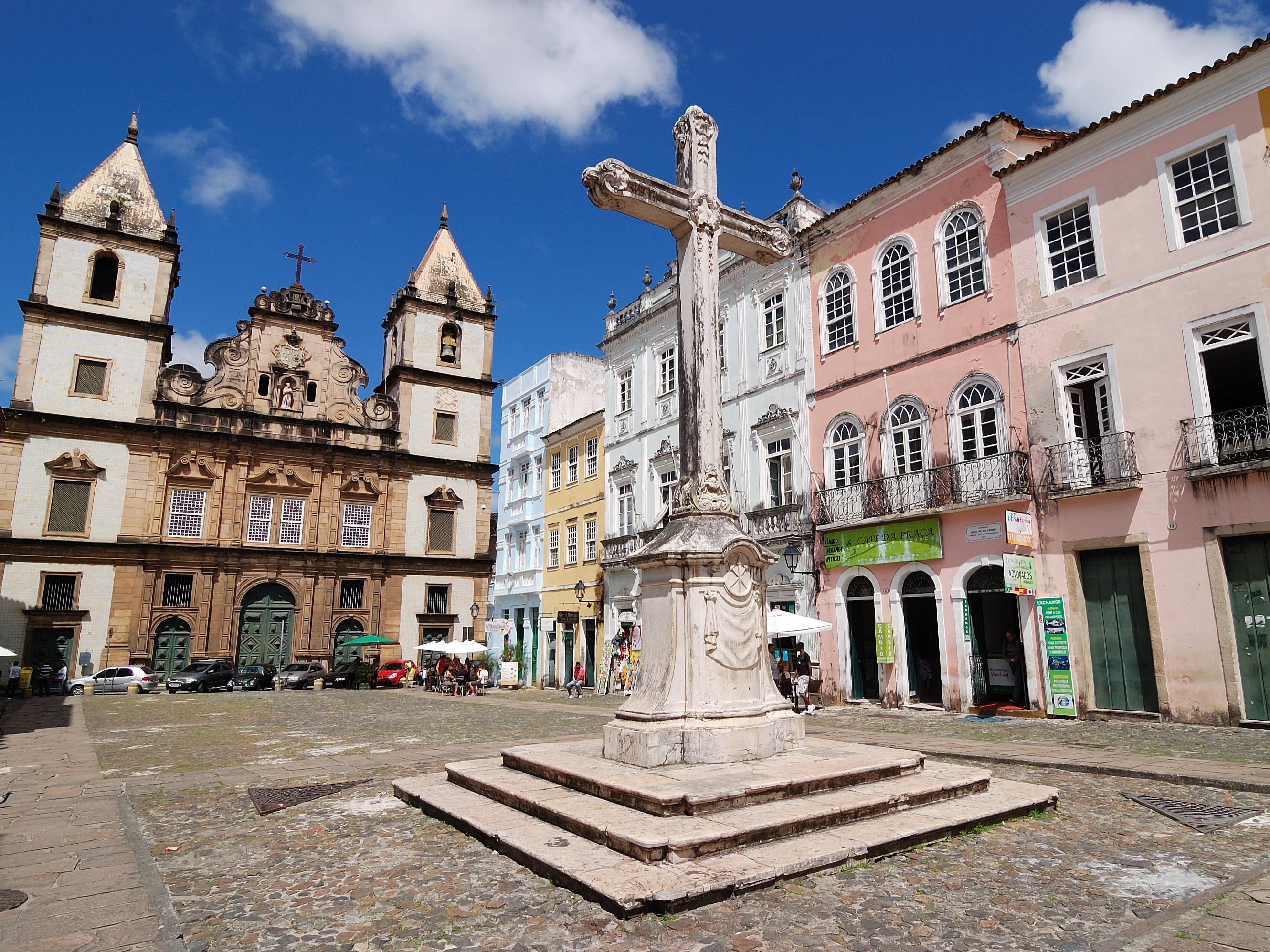 Square and Cross in front of Saint Francis Church in Salvador, Bahia, Brazil